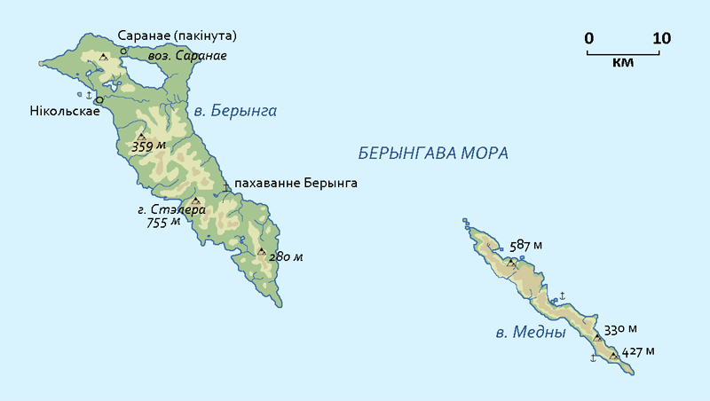 map of Commander Islands in Belarusian